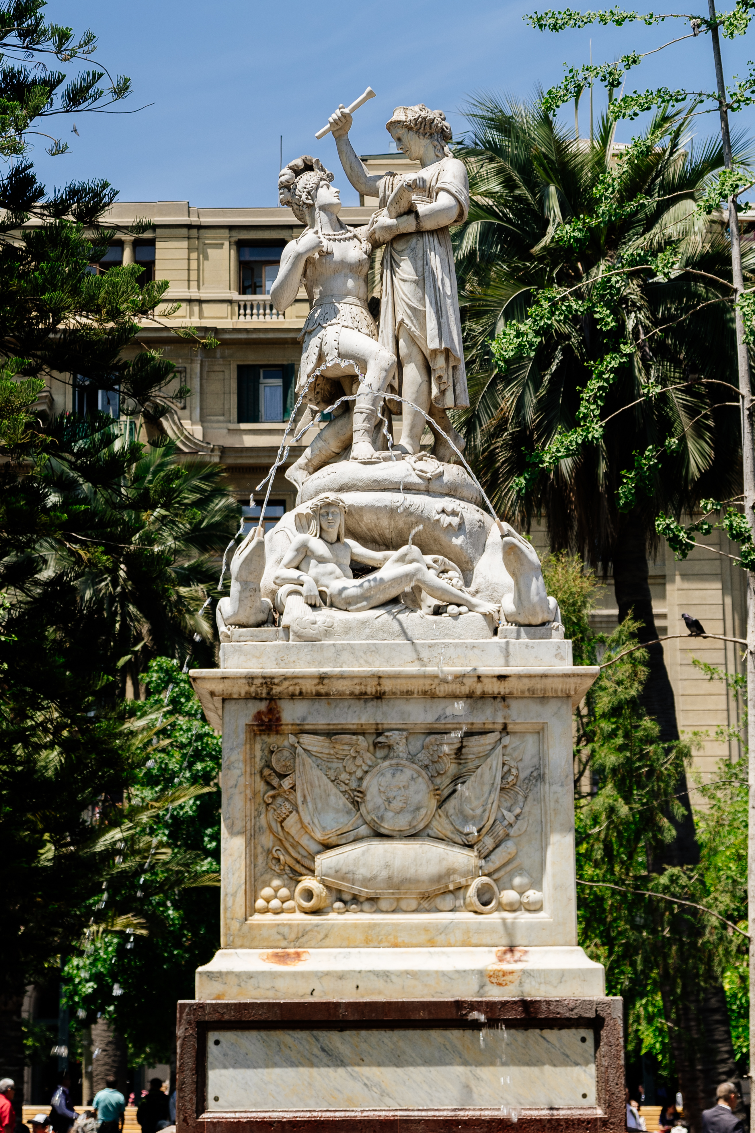 Monument to Simon Bolivar, Plaza de Armas, Santiago de Chile, Santiago, Chile